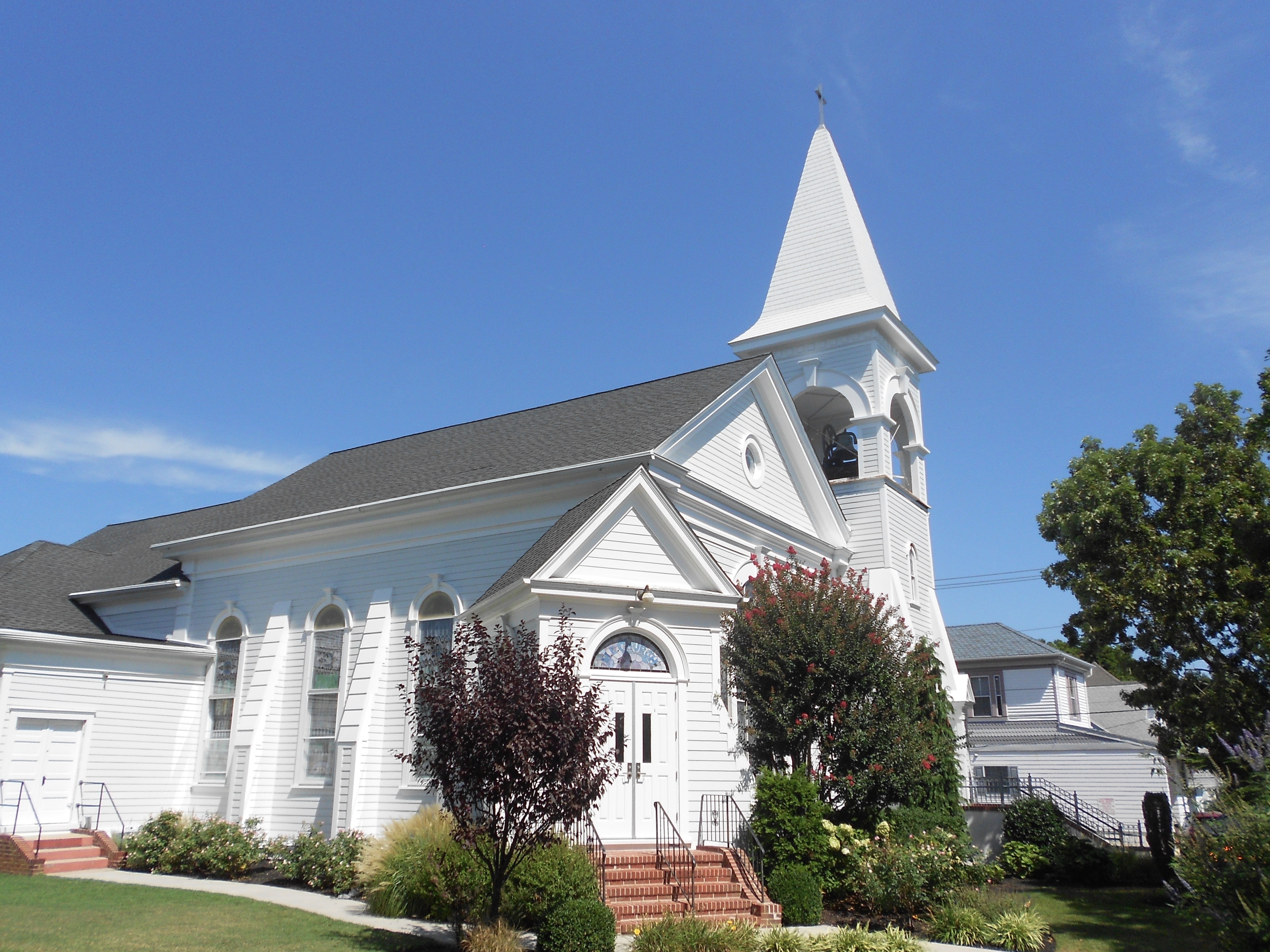 First United Methodis Church, next to the courthouse in Cape May Countyhouse, Cape May County, New Jersey